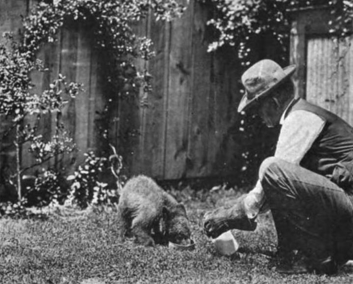 "Mr. Eugene S. Bruce and his bear. Mr. Bruce caught this cub with his hands, in the California mountains. It is now in the Washington Zoo." - "The Land We Live In, The Book of Conservation" by Overton W. Price (1919, USA, Public Domain)